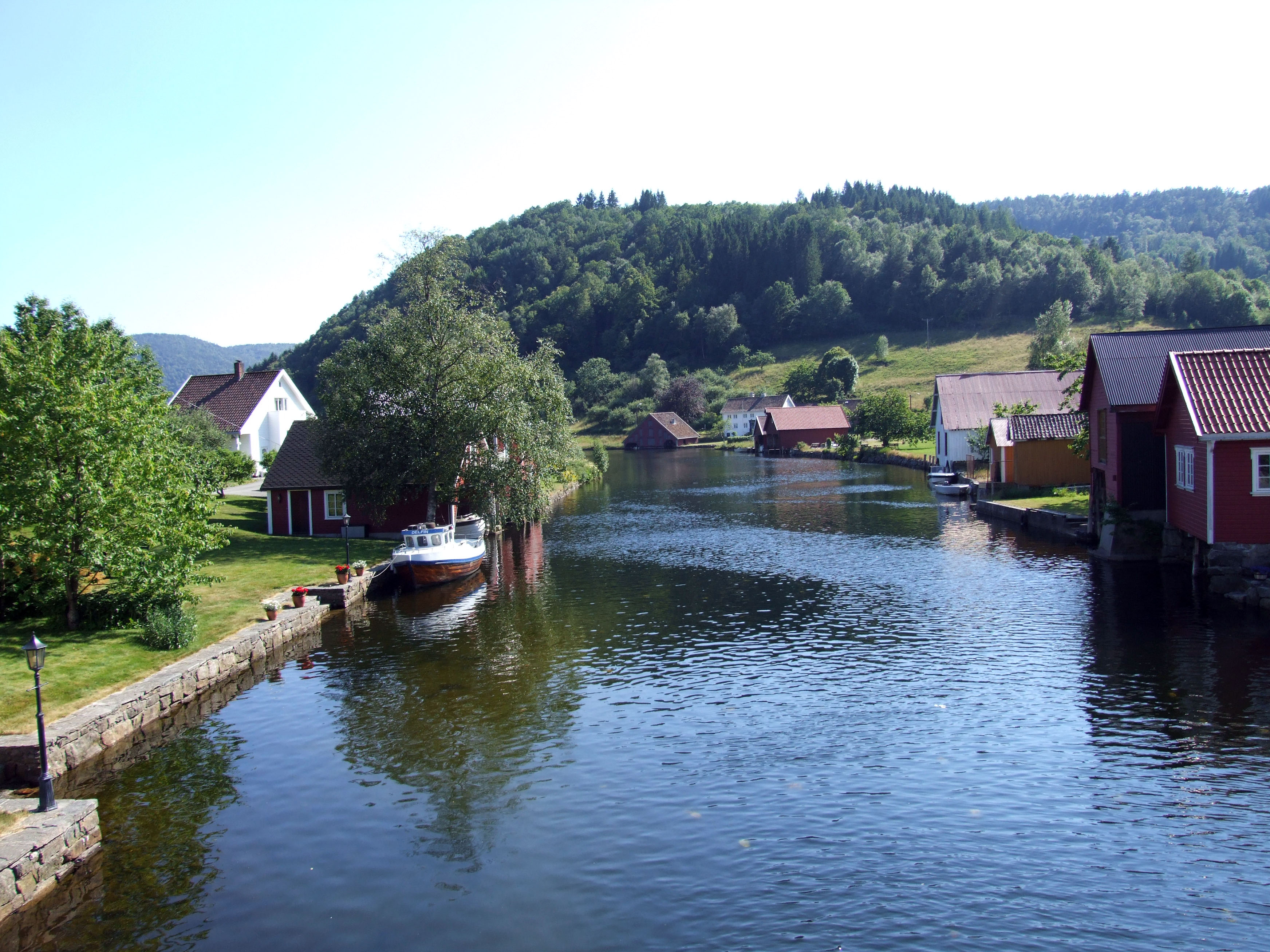 Feda in Kvinesdal kommune in Vest-Agder 2009, picture taken from the bridge across Fedaelva.